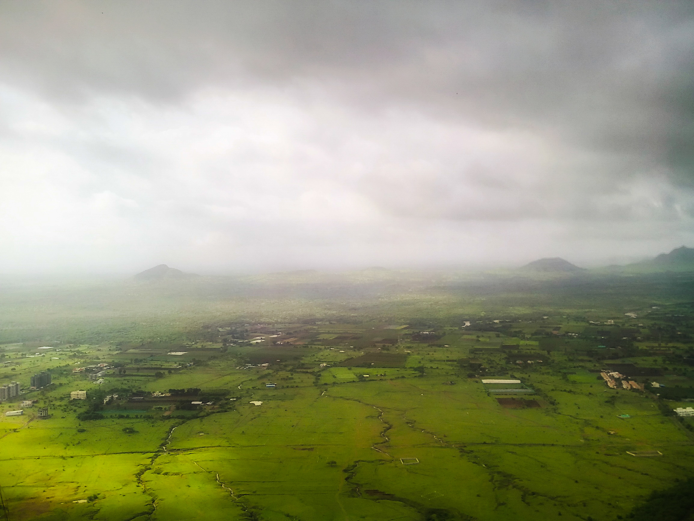 From the peak of mountain Pandavleni